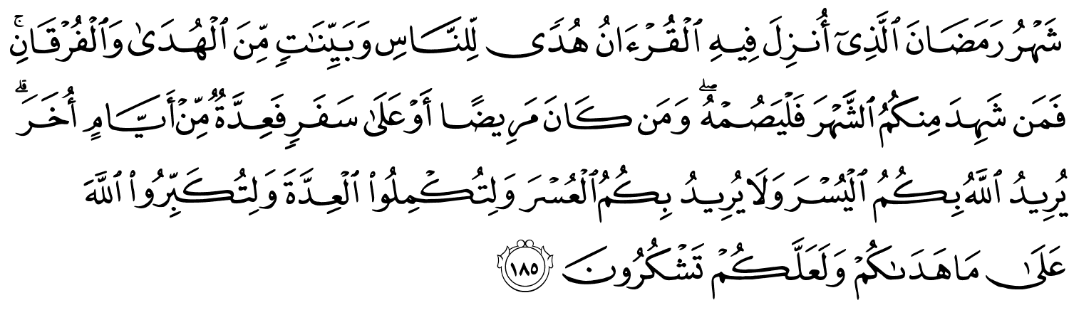 Al-Baqarah UsmaniScript